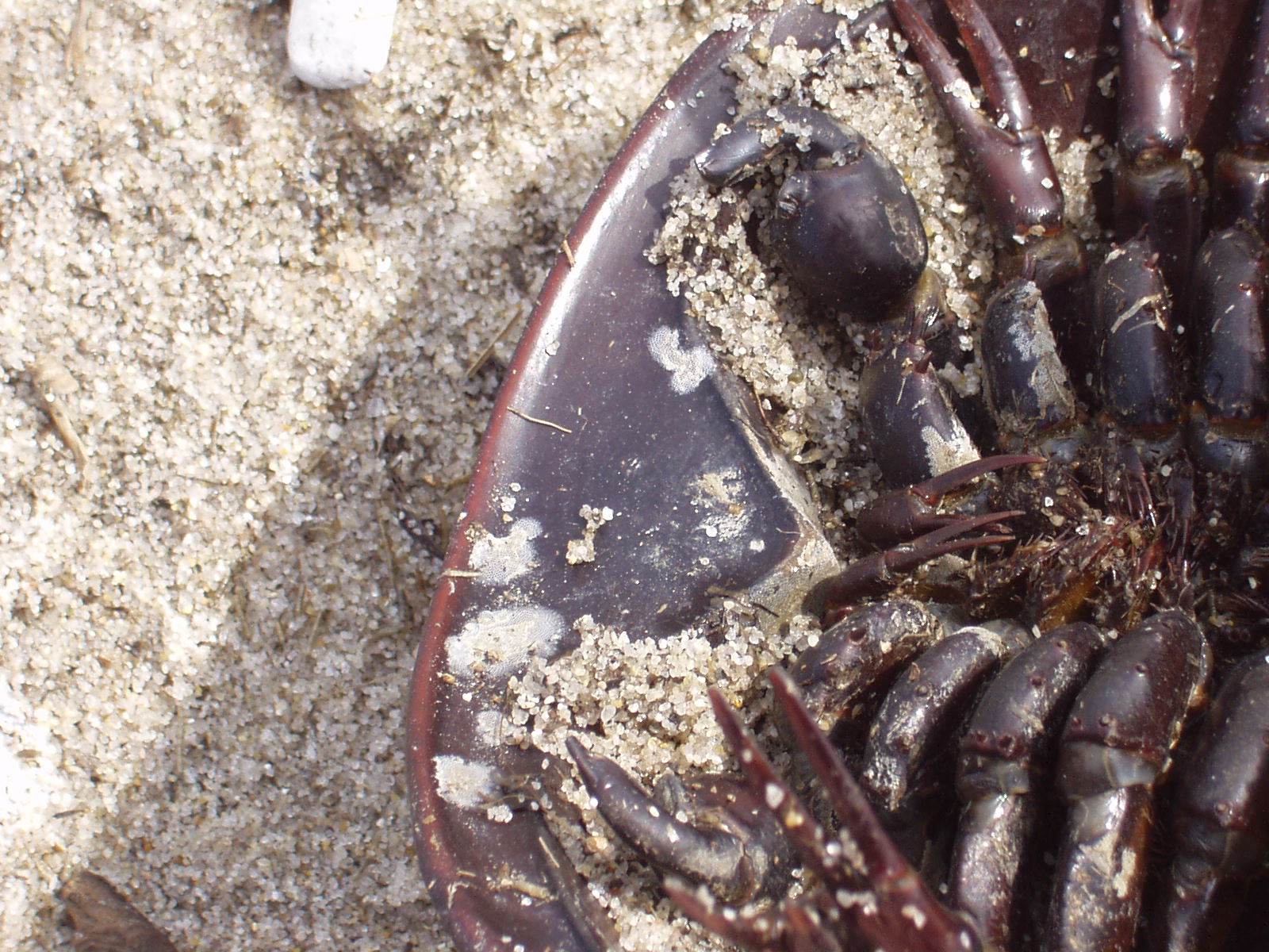 I took this picture myself in May 2003, on the Delaware Bay beach west of Lewes, Delaware. It shows how the first pedipalp of the male horseshoe crab is adapted to grasp the female during reproduction.